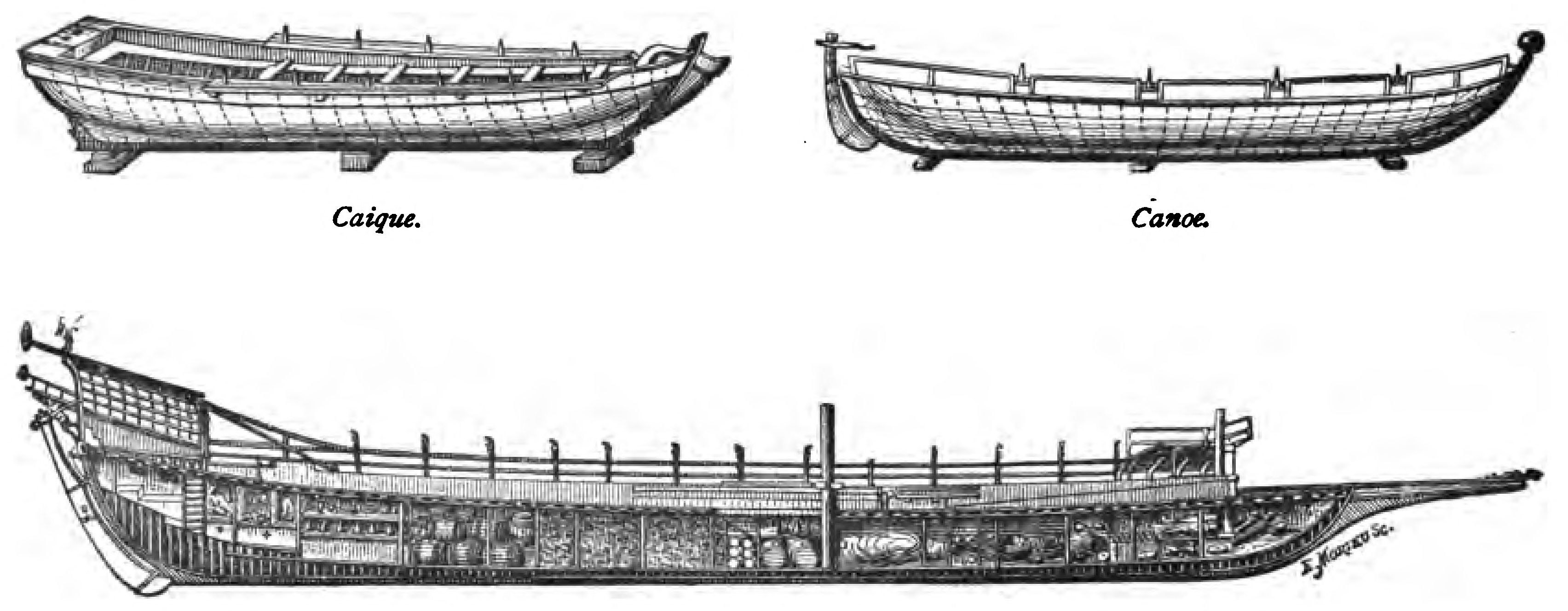 Illustration of a caique and canoe as well as the hold a galley, found in The Story of the Barbary Corsairs' by Stanley Lane-Poole, published in 1890 by G.P. Putnam's Sons.